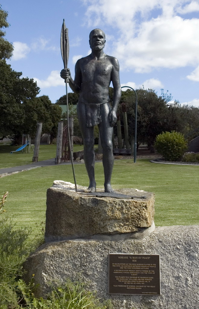 Statue of "Mokare" - Albany, Western Australia.